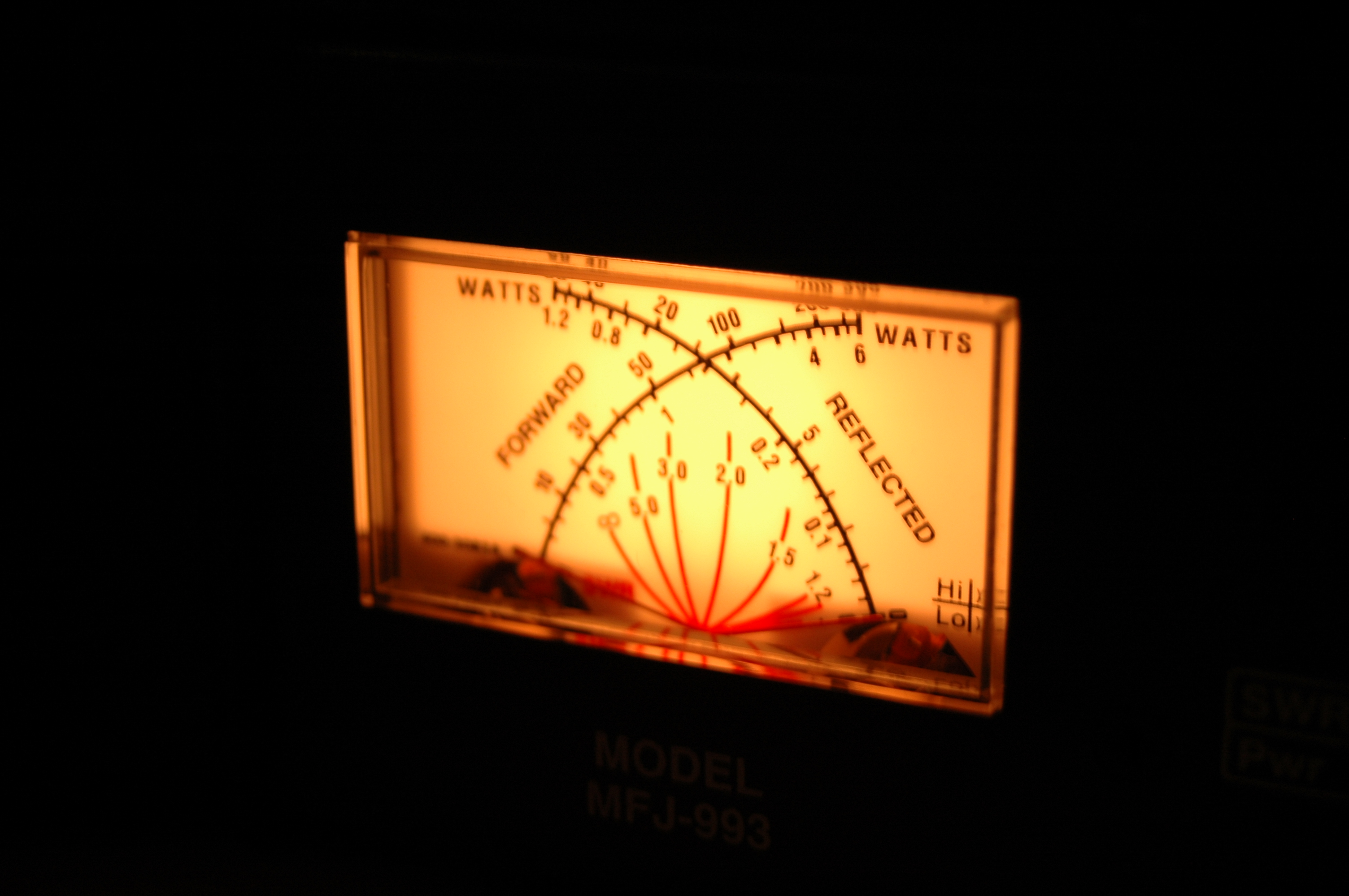 SWR meter indicating both forward and reflected RF power